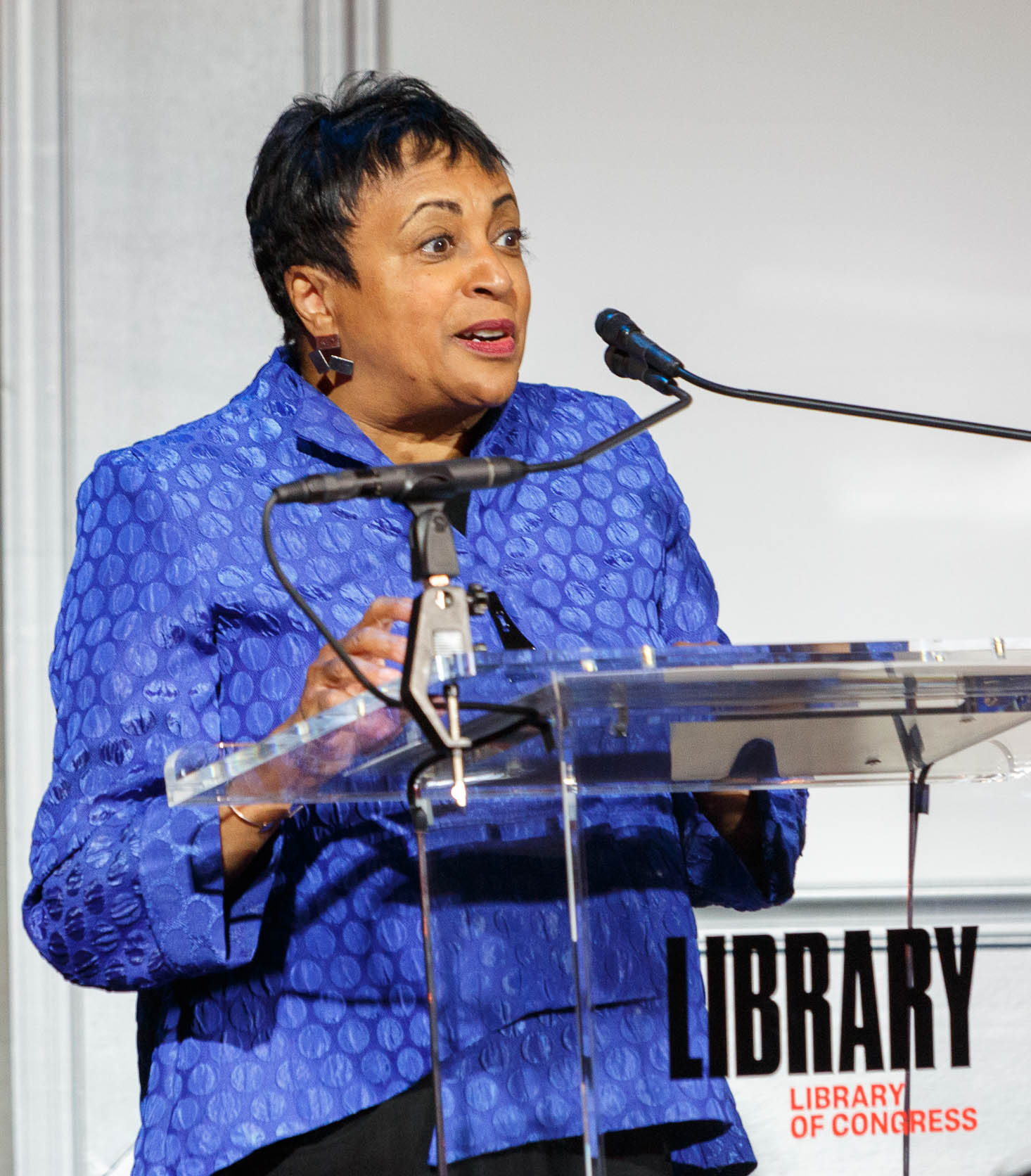 Librarian of Congress Carla Hayden speaks at the gala ceremony for the inaugural Library of Congress Lavine/Ken Burns Prize for Film, October 17, 2019. Photo by Shawn Miller/Library of Congress. Note: Privacy and publicity rights for individuals depicted may apply.